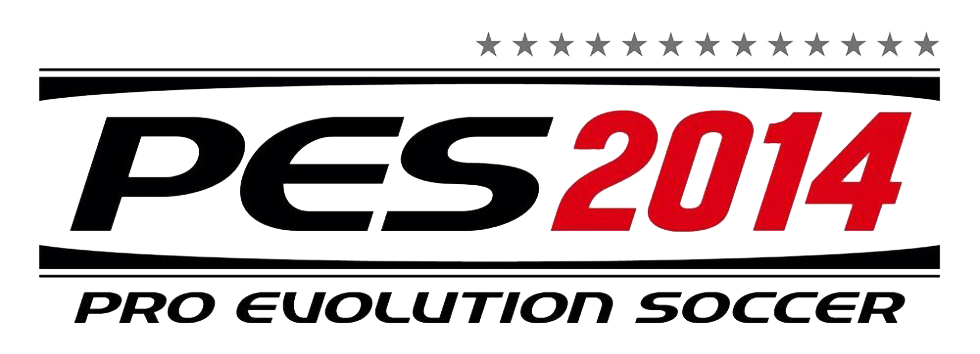 Pes 2014 logo,is an association football video game and the latest edition of the Pro Evolution Soccer series, developed and published by Konami